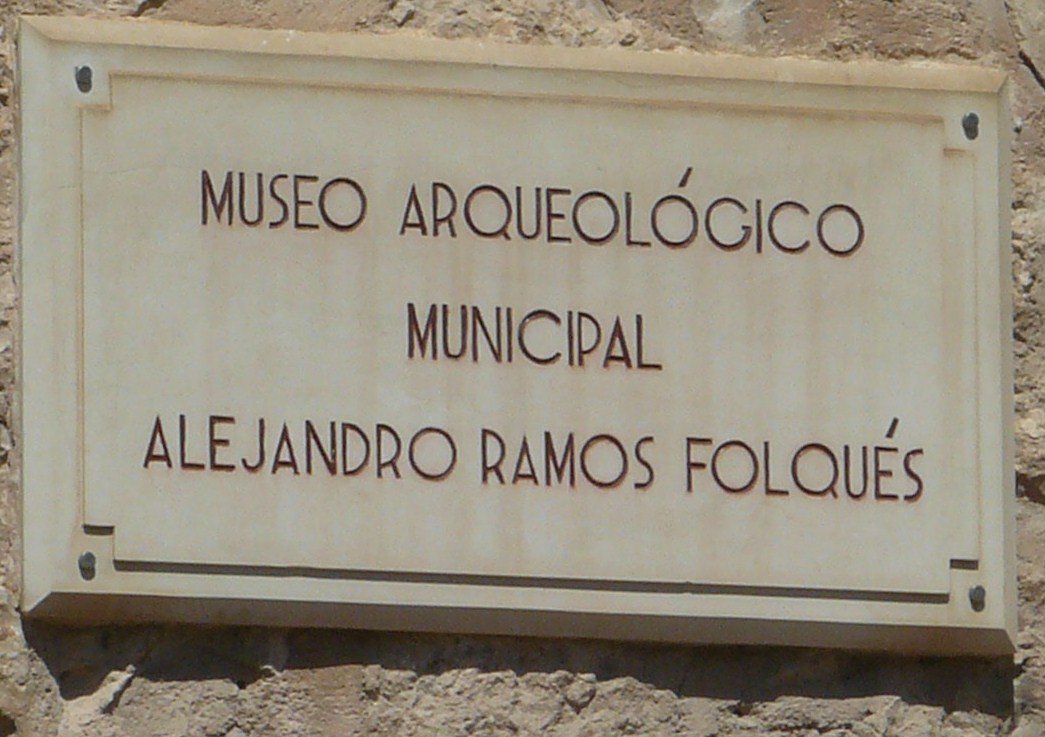 Museum of Archeology - Elche/Elx (Land of Valencia, Spain).